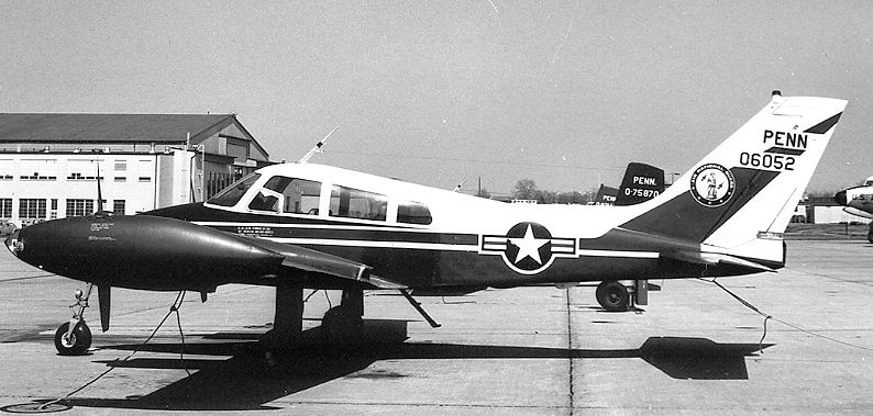 103d Tactical Air Support Squadron U-3A Blue Canoe 60-6052 Aircraft now at Museum of Aviation, Robins AFB, Georgia